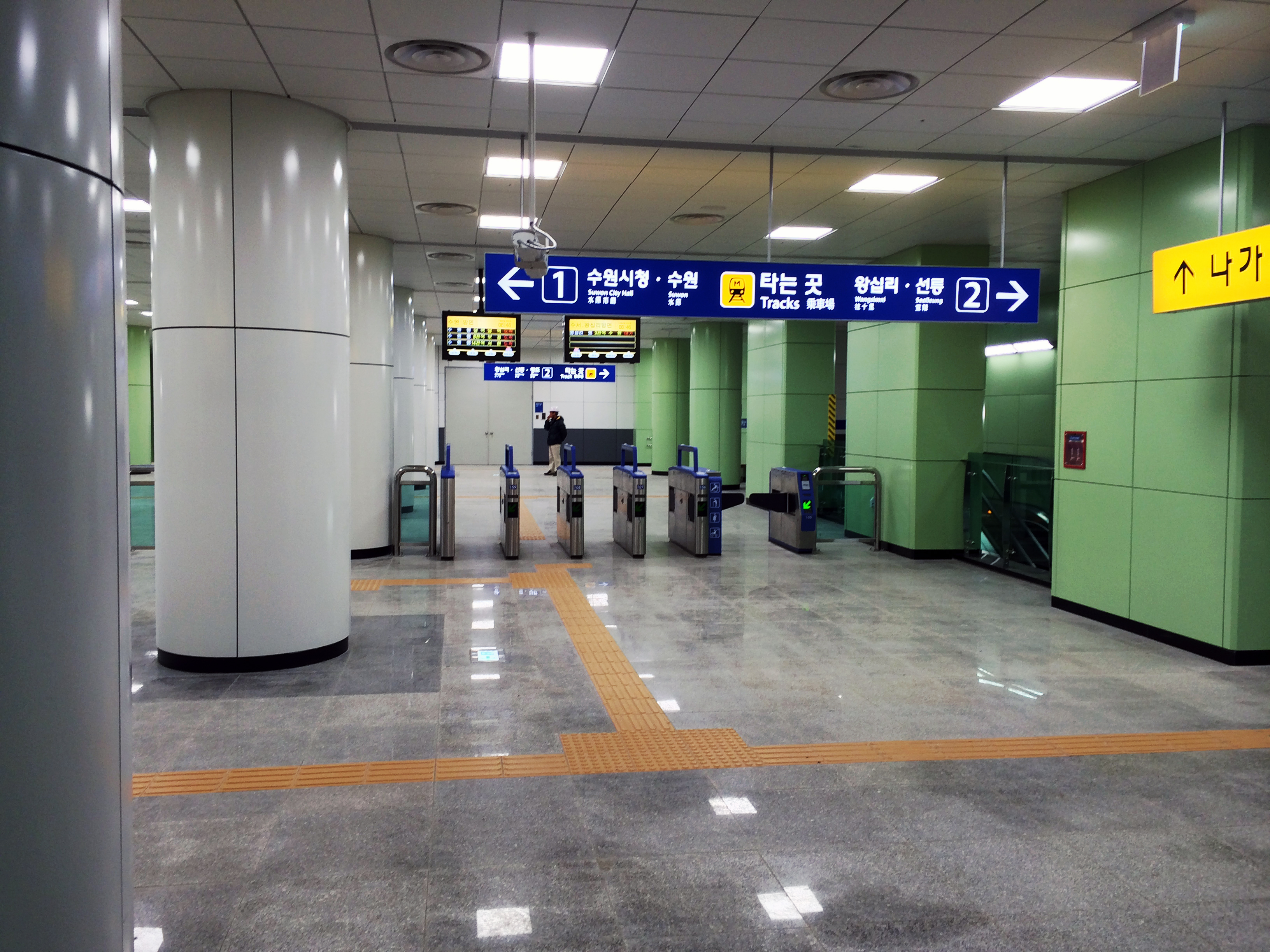 Ticket gate of MaetanGwonseon Station